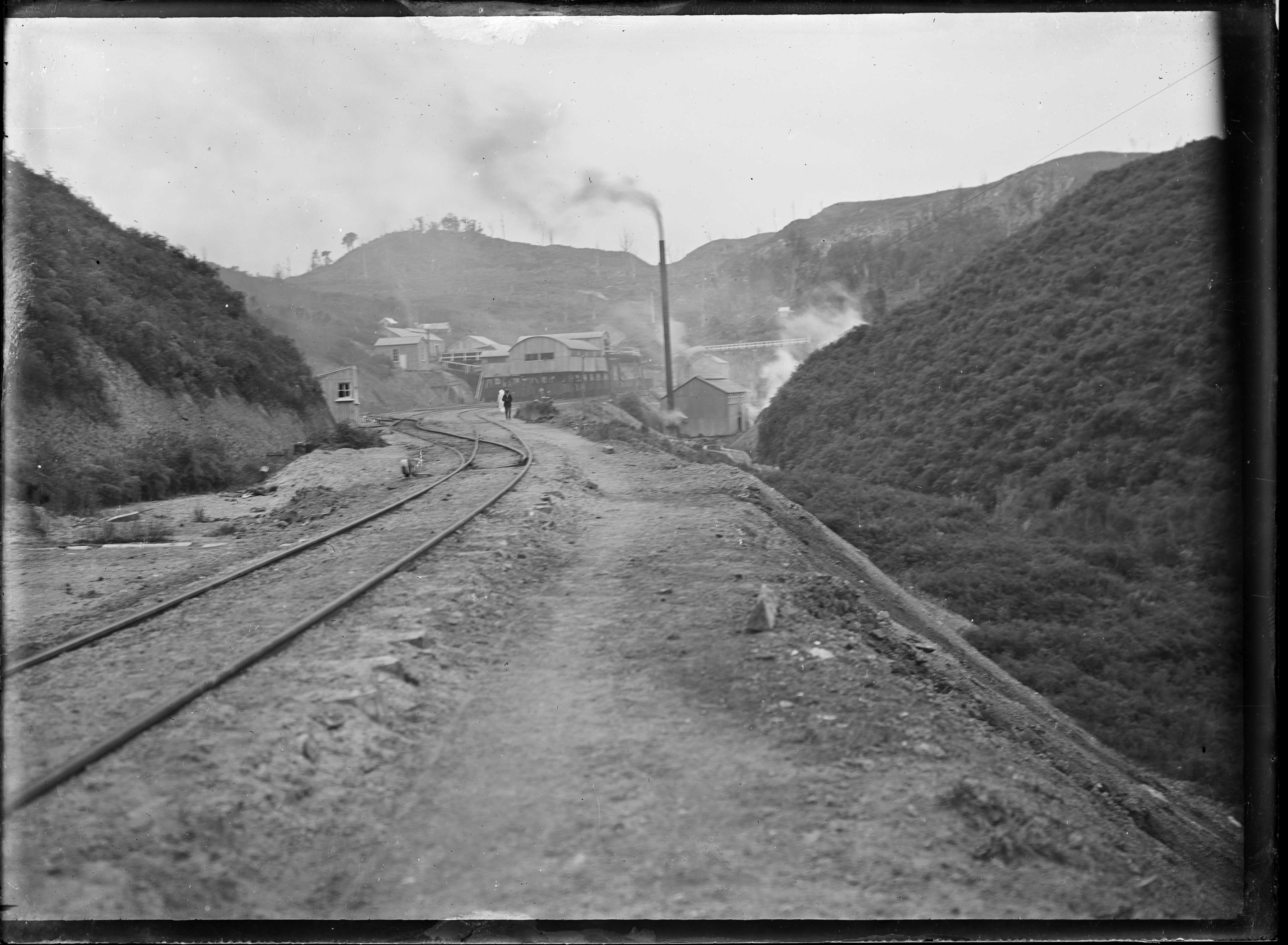 Entrance to the Pukemiro Coal Mine, Waikato. Photograph taken by Albert Percy Godber, in 1917. Dated from surrounding images in the Godber Album at Pa1-q-102 (p 61)